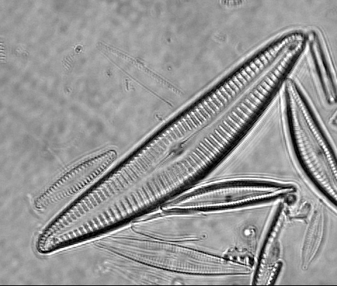 Cymbella sp.